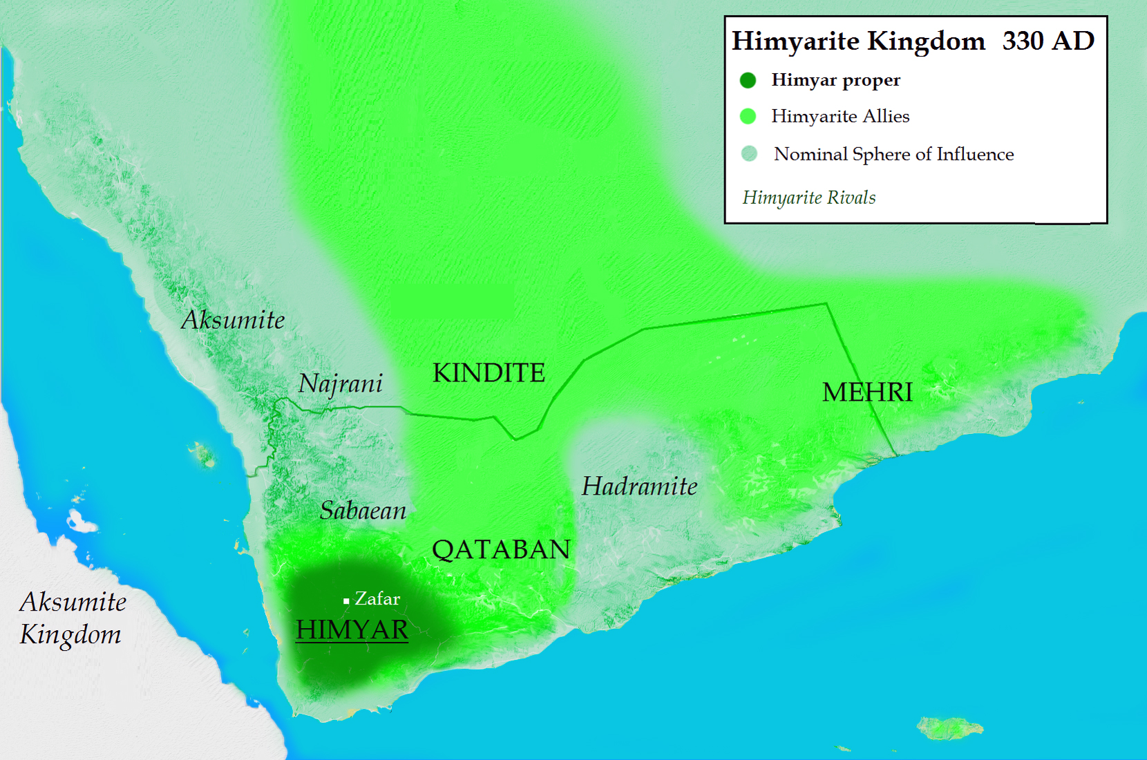 Himyarite kingdom degrees of control at 330 AD, the map highlights the alliance with Qataban, Kindites & Mehri, the Sabaean, Hadramite & Aksumite rivals (Aksum forms future alliance with the rivals weakening Himyar & eventually takes over Himyar in the 6th century AD)